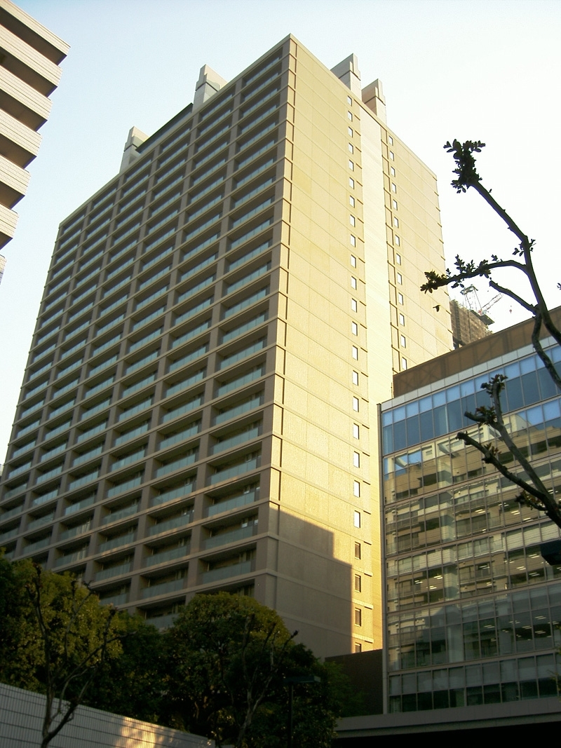 Lawmaker Government residence Japan